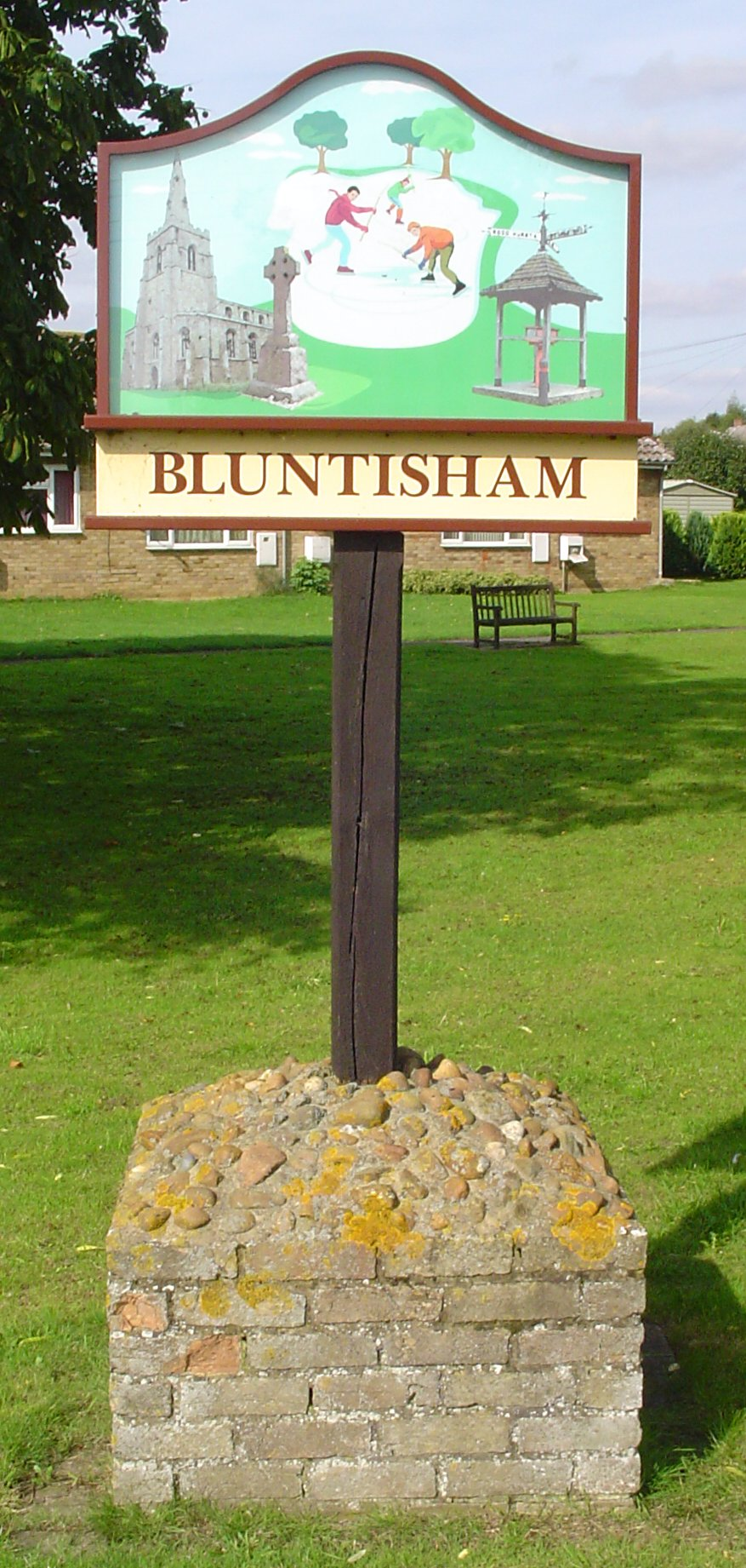 Signpost in Bluntisham